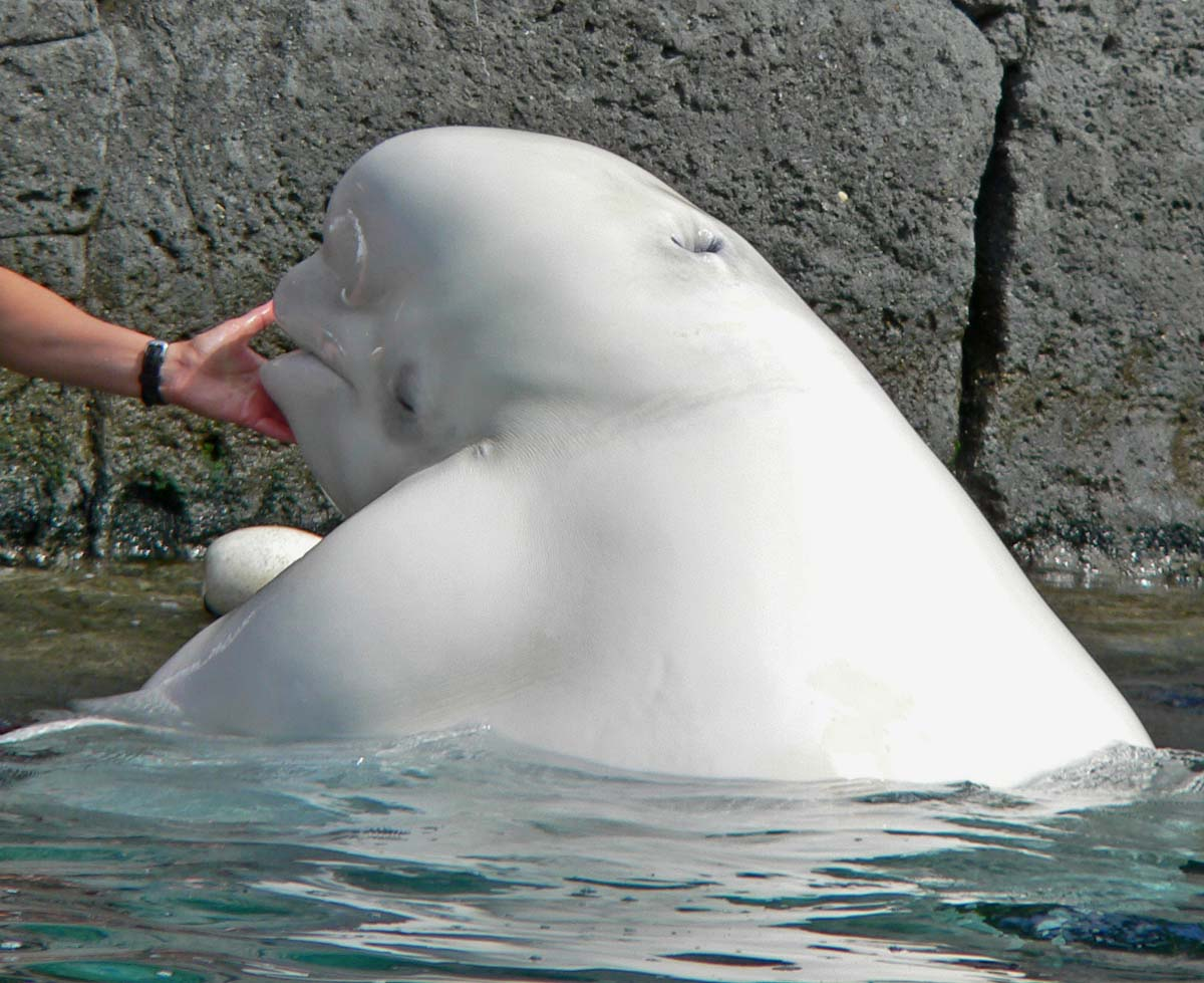 Photo of Delphinapterus leucas (beluga) with hand for scale, at the Vancouver Aquarium